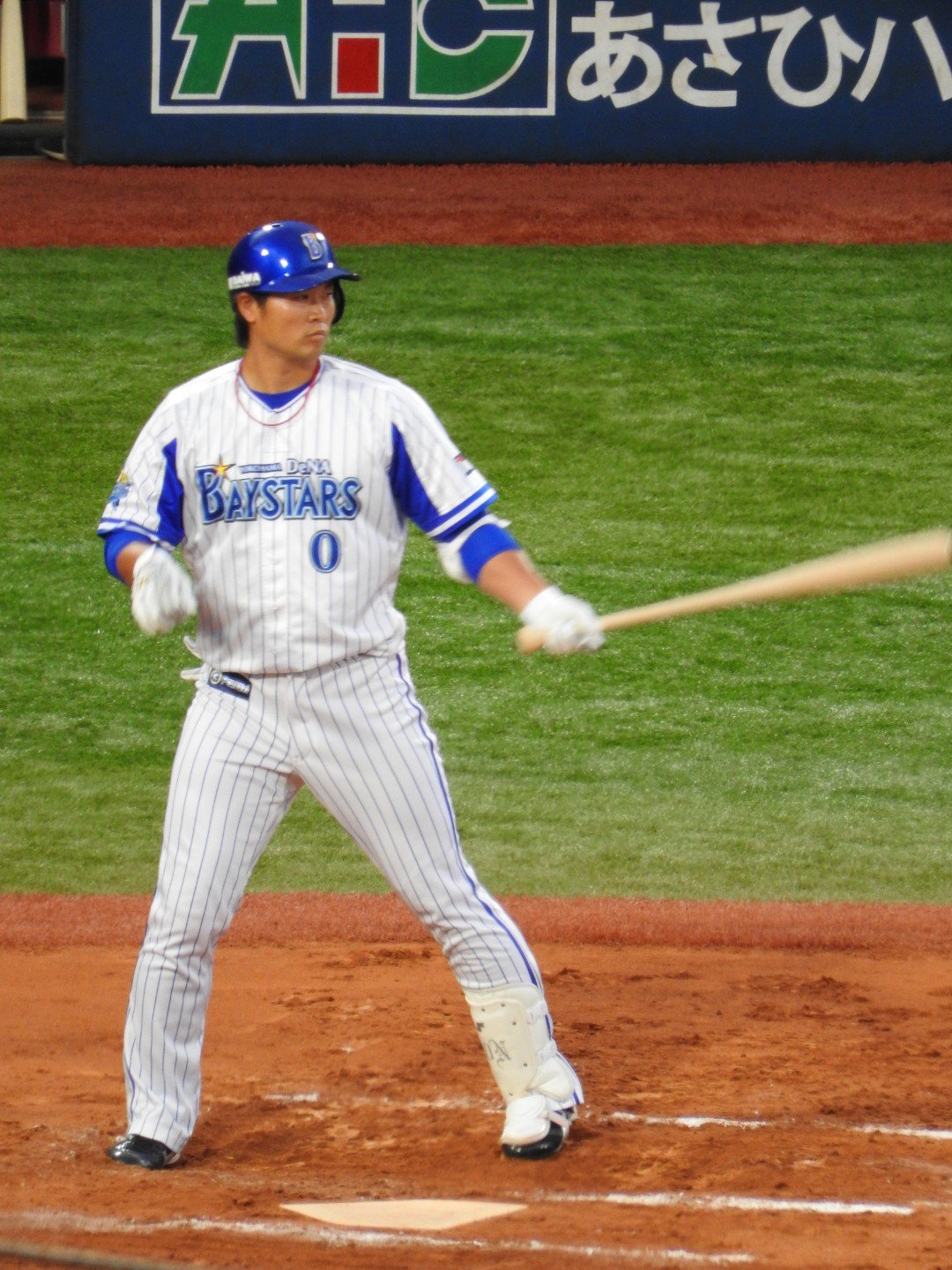 baseball player of baystars.